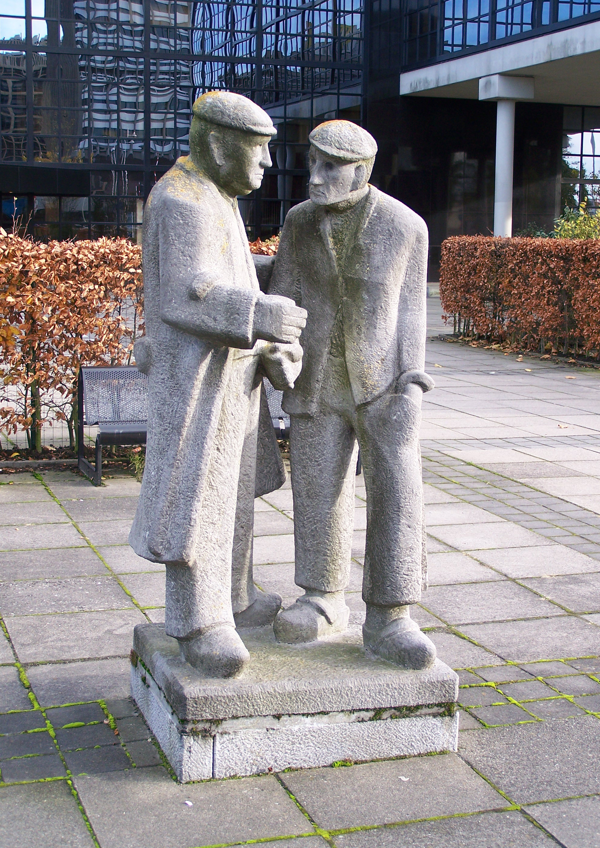 Sculpture "Handjeklappende veekooplui" (Dealing farmers) made by David van Kampen in 1978. Placed at the Snekerkade in Leeuwarden.Het beeld is in 2018 verdwenen.